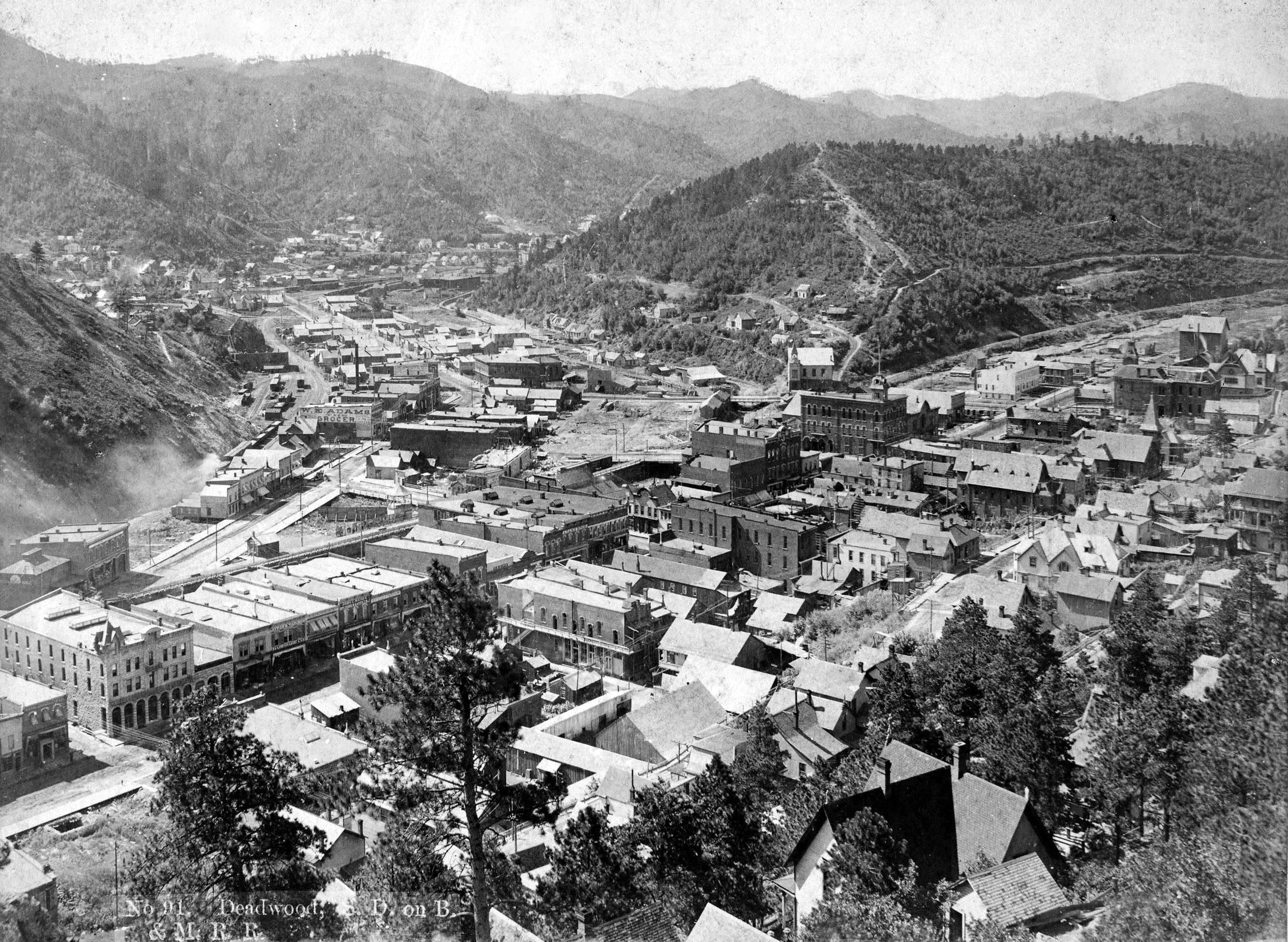 Birdseye Albumen of Deadwood, South Dakota circa 1890s.